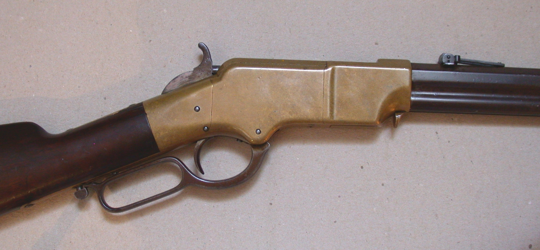 Mod 1860 Henry rifle, Receiver